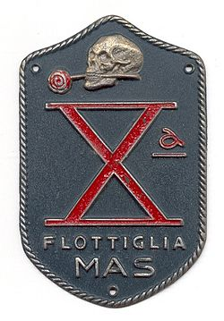 Decima Flottiglia MAS arm badge from September 1943 until April 1945 (Nazi occupation of Italy).